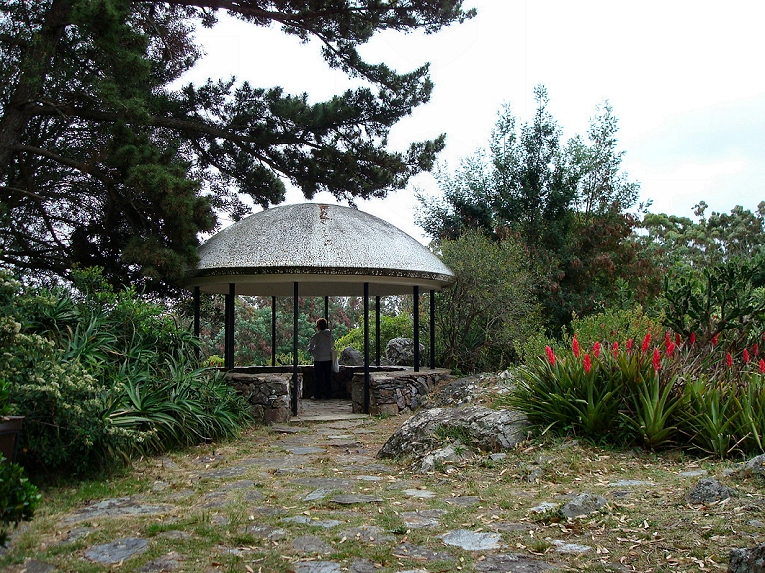 Observatory in the Arboretum Lussich, Maldonado Department, Uruguay.